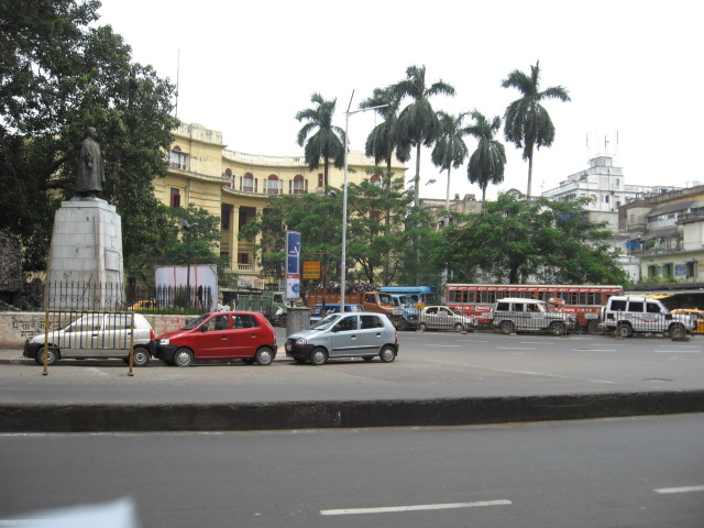 Own photograph